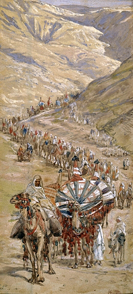 The Caravan of Abram c.1896-1902 watercolor by James Tissot